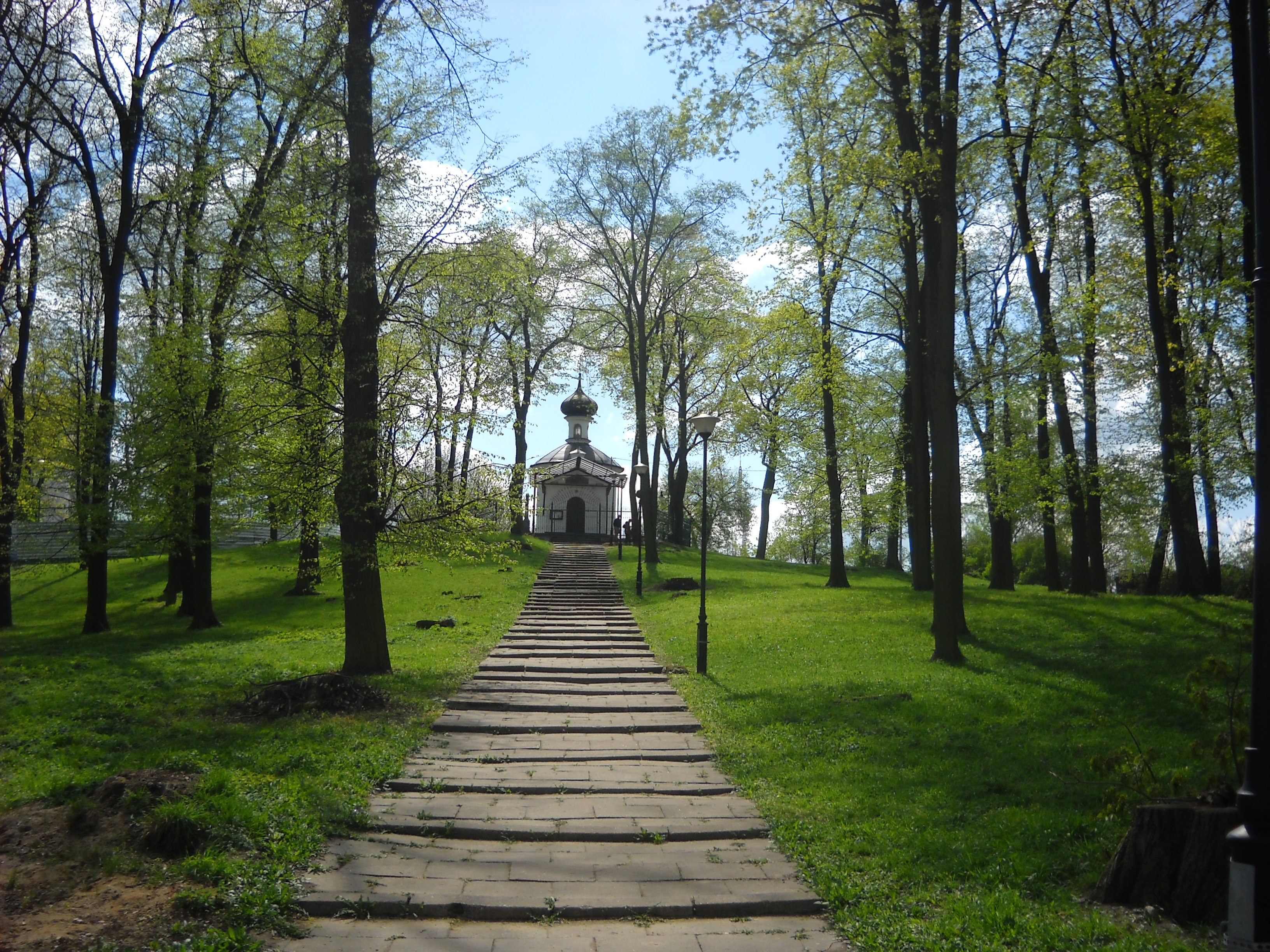 Białystok (Poland). Outside stairs of the Church of St. Maria Magdalena